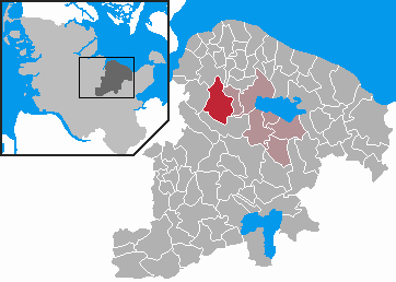 This map shows the area of the Gemeinde (municipality) Dobersdorf in the Kreis (district) Plön, Schleswig-Holstein, Germany.